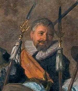 Portrait of Abraham Cornelisz van der Schalcken in The officers and non-commissioned officers of the Saint George Civic guard in Haarlem in 1639, detail